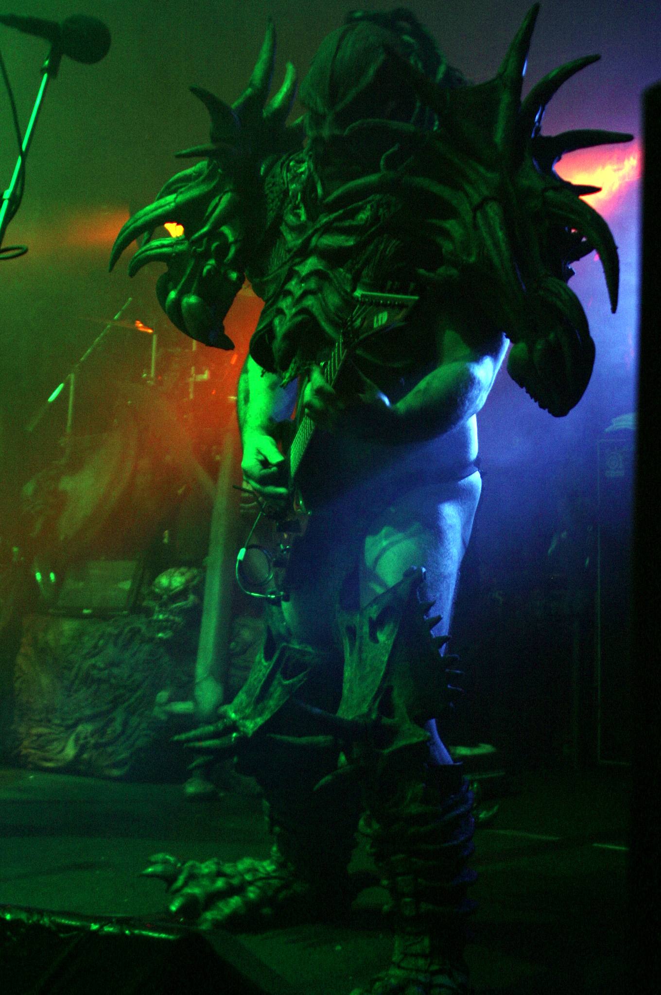 Flattus Maximus of GWAR Live in Concert